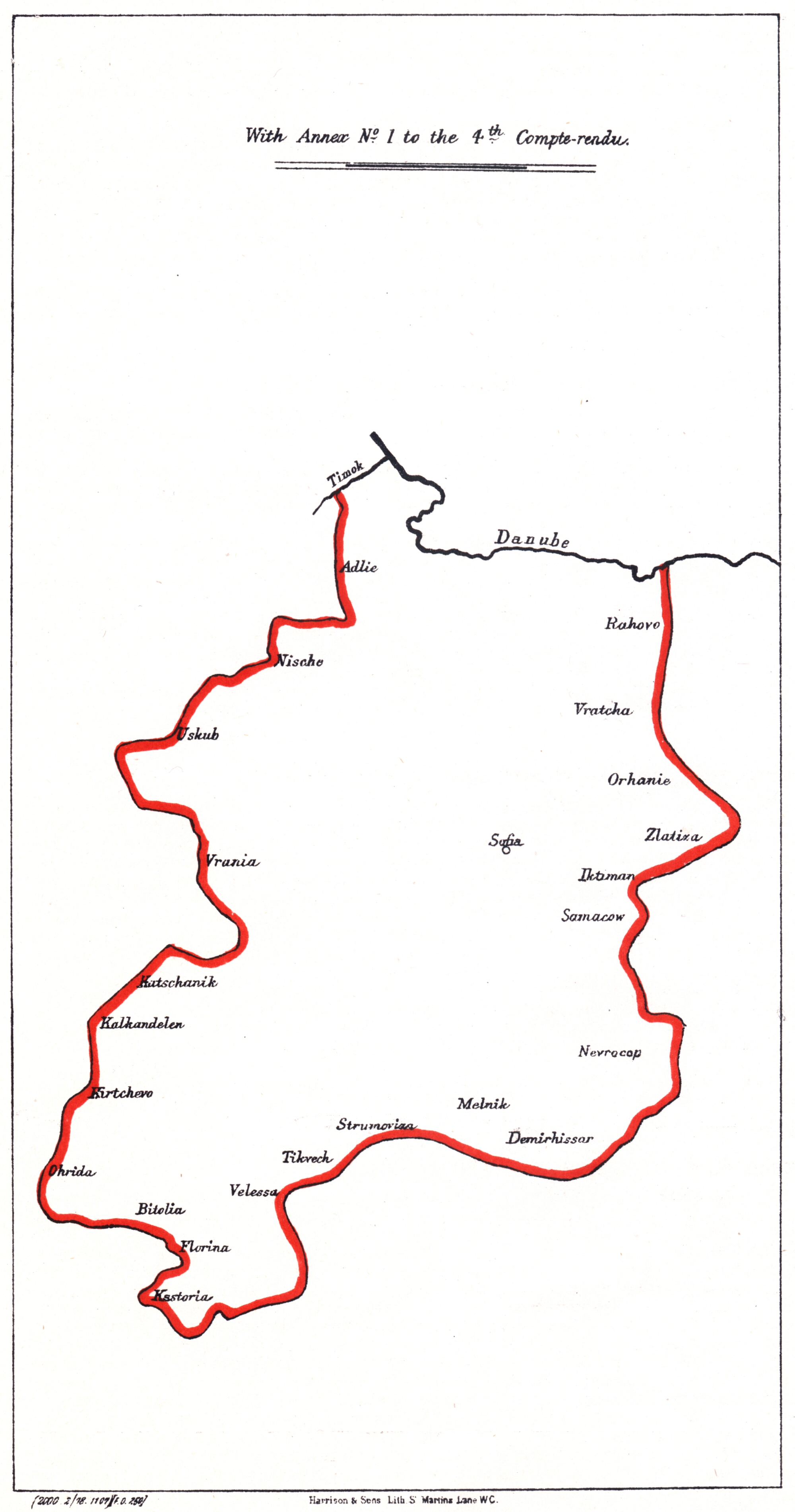 Map of the Western Bulgarian Autonomous province, proposed by the Constantinople Conference (1876)